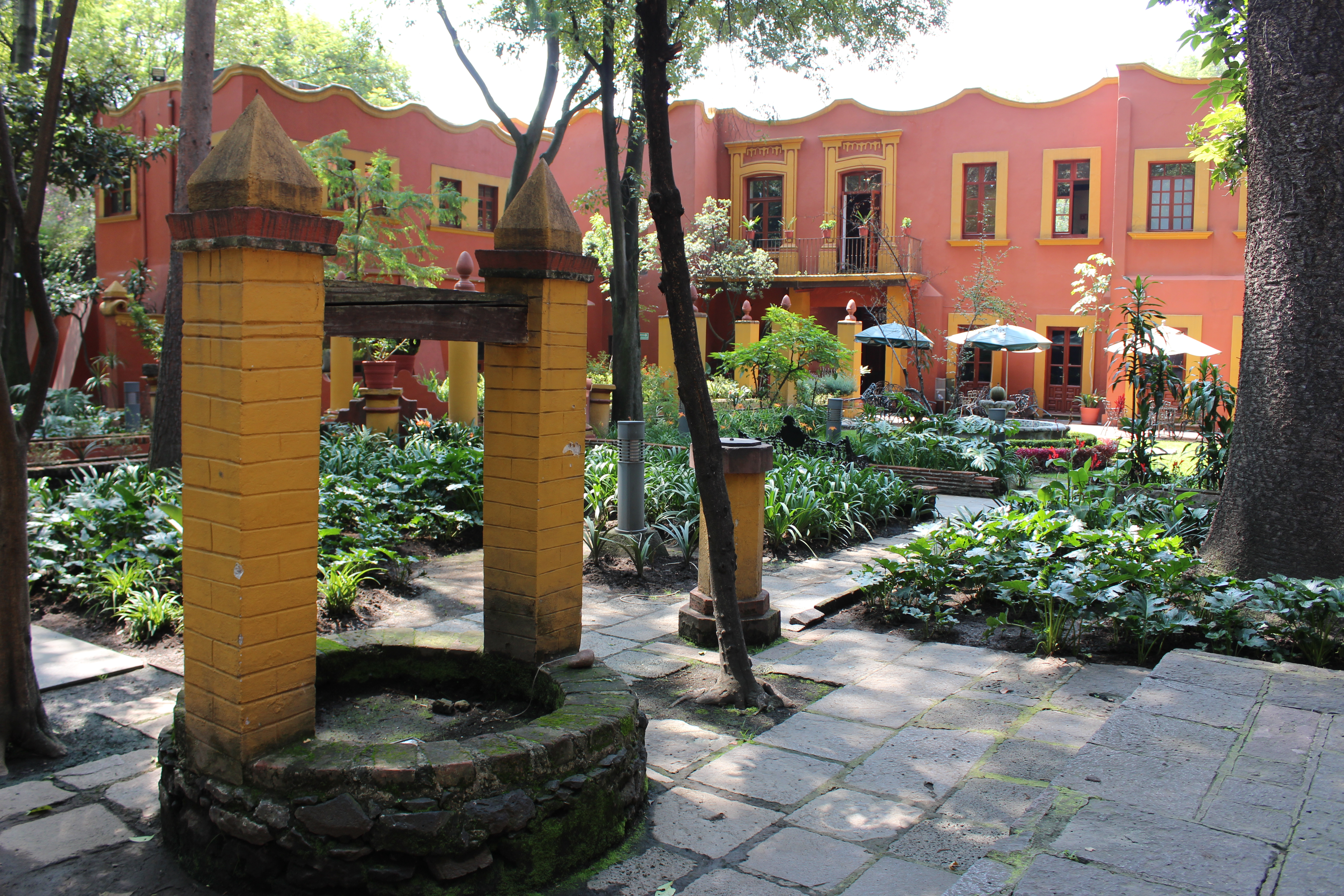 Jardín Sonoro (Garden of Sound) Fonoteca Nacional (Mexico Sound Archive) Coyoacán, Mexico City, Mexico.